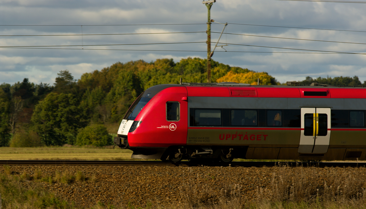 The Upptåget commutertrain at Old Uppsala sept 2010.